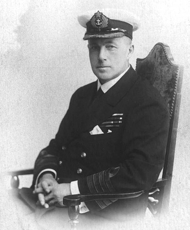 Russian explorer Fyodor Andreyevich Matisen